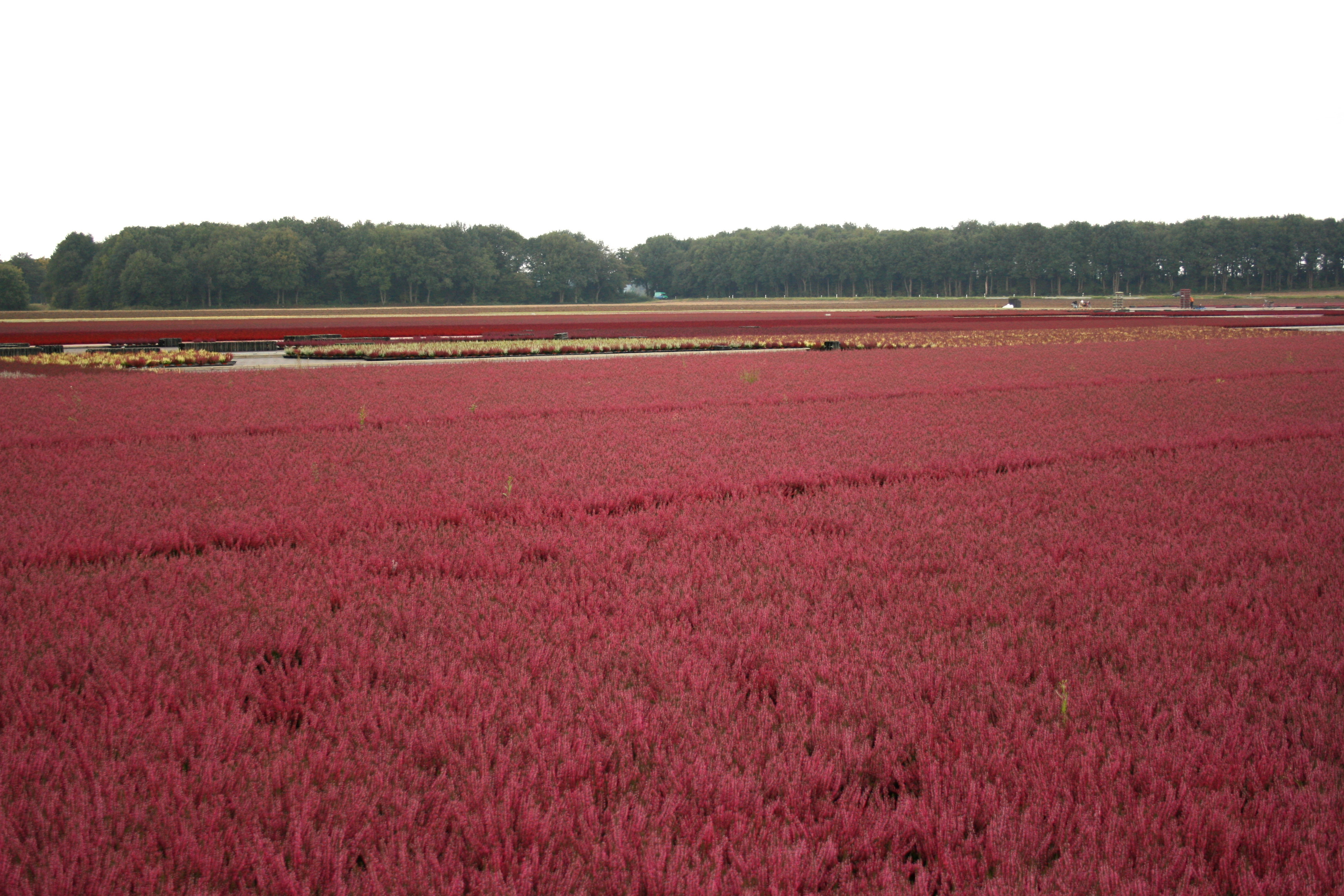 Erica nursery in Geldern, Germany